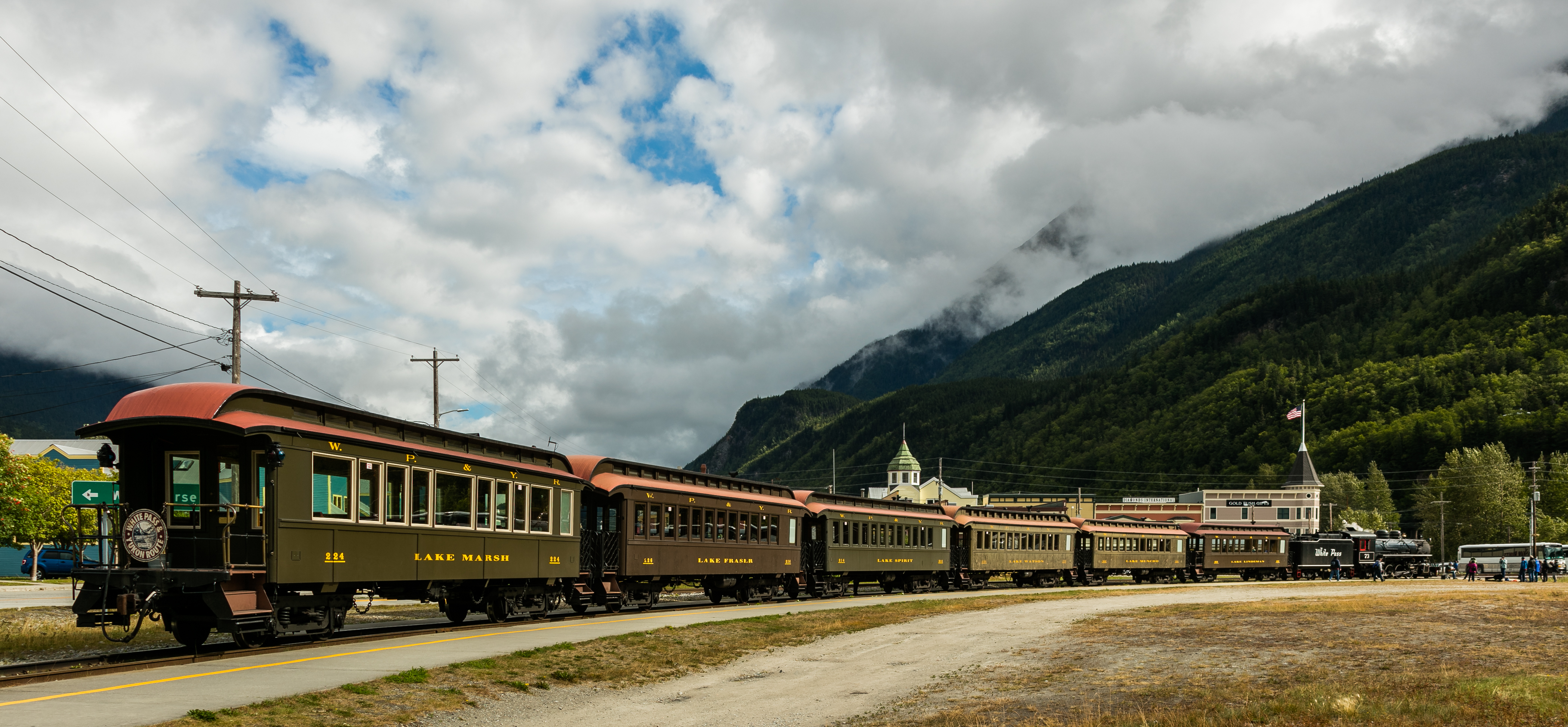 White Pass and Yukon Route railway, Skagway, Alaska, USA